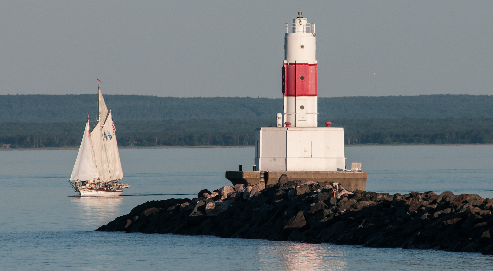 Sailing on Lake Superior near Marquette, Michigan the historic schooner Coaster II passes the Presque Isle Harbor Breakwater Lighthouse. The Coaster II was built in1933, and it provides cruises in the Marquette area. It is a registered National Historic Landmark.